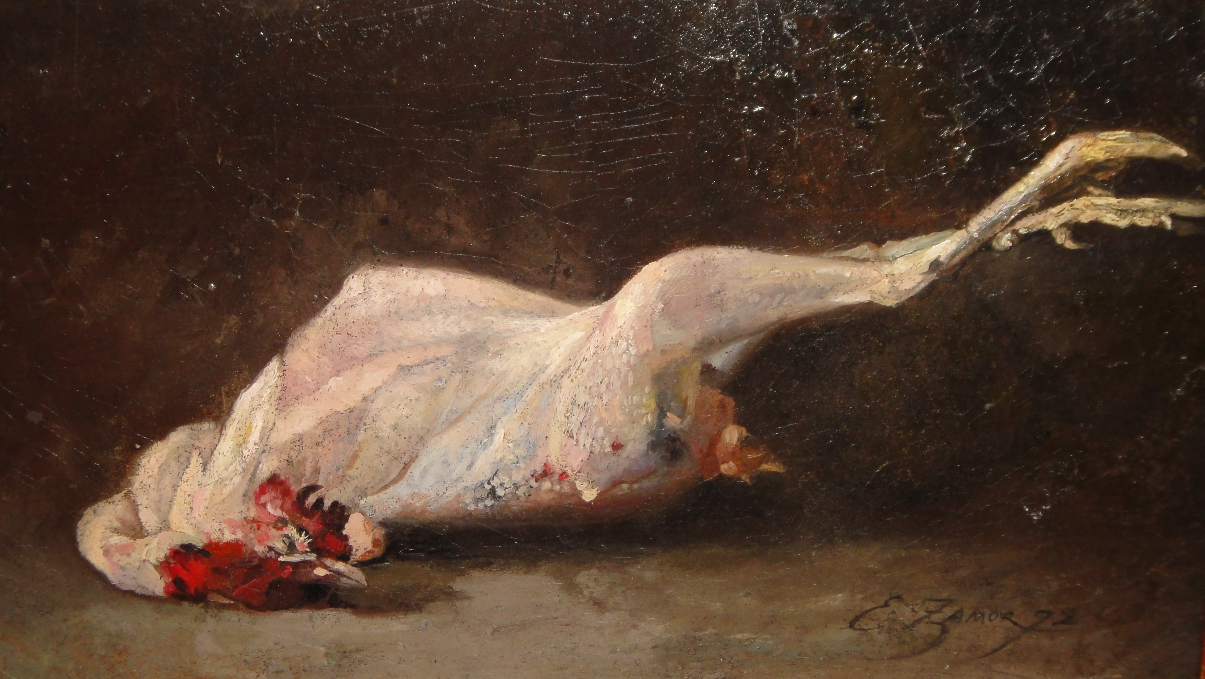 Emmanuel Zamor: Nature Morte (Still Life) with a Chicken